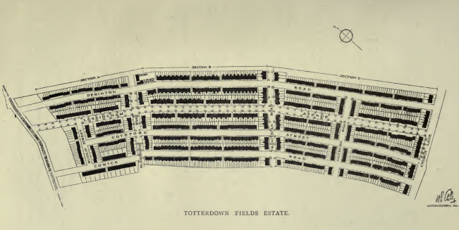 Image from the Report of the Housing for the Working Classes Committee, London County Council. 1912-1913. William Edward Riley signature appears on the drawings, and he signed off all the building depicted. (1913) Housing of the working classes in London. Notes on the action taken between the years 1855 and 1912 for the better housing of the working classes in London, with special reference to the action taken by the London County Council between the years 1889 and 1912 (Odhams, Digitised by Google ed.), London: London County Council Retrieved on 8 June 2016.